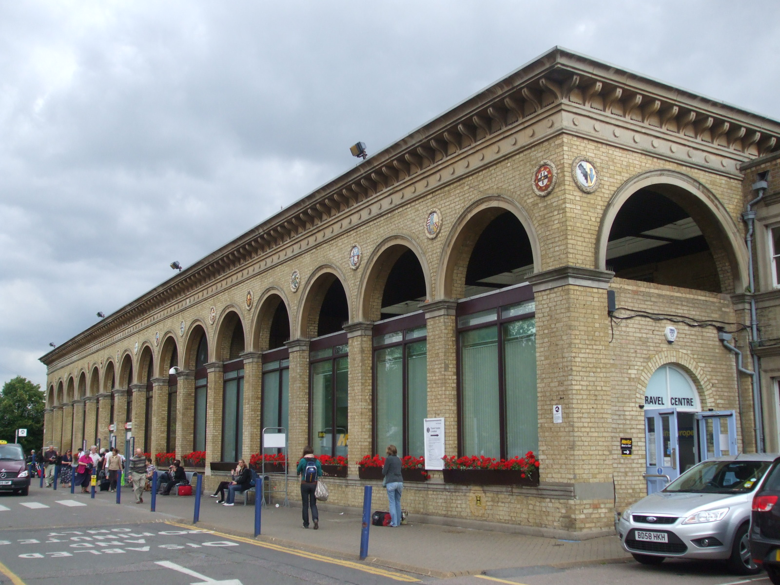 Cambridge station building, viewed from the south